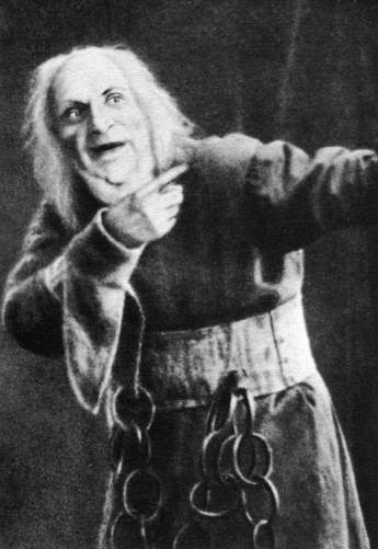 Ivan Yershov as Kashchey (Mariinsky Theatre, Petrograd, 1918) Иван Ершов в роли Кащея Бессмертного (Мариинский театр, 1918)